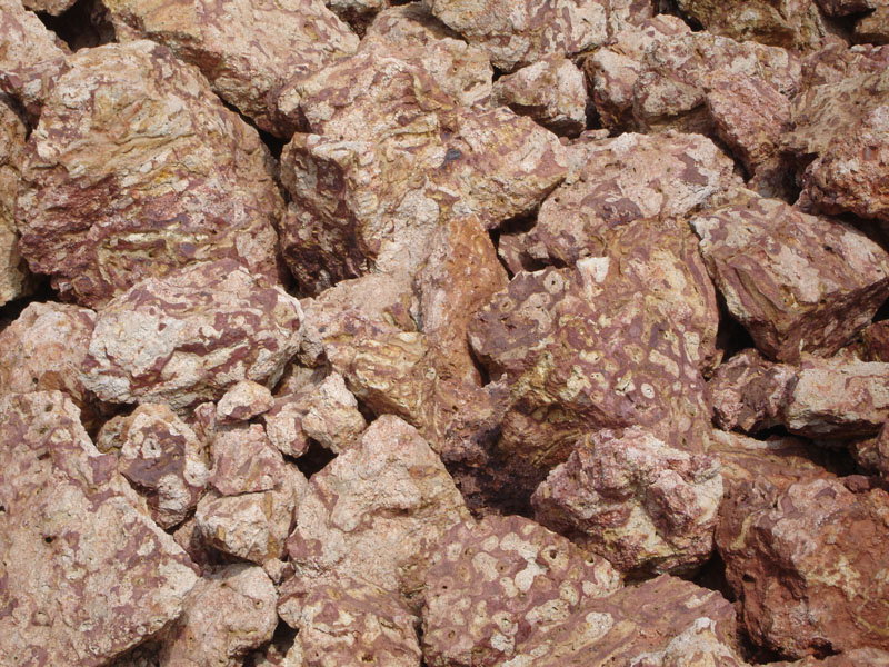 Bauxite mineral, Paduvare plateau, near Baindur, Udupi district, Karnataka, India ಕನ್ನಡ: ಬಾಕ್ಸೈಟು ಖನಿಜ, ಪಡುವಾರೆ ಪದವು, ಬೈಂದೂರು ಸನಿಹ, ಉಡುಪಿ ಜಿಲ್ಲೆ, ಕರ್ನಾಟಕ